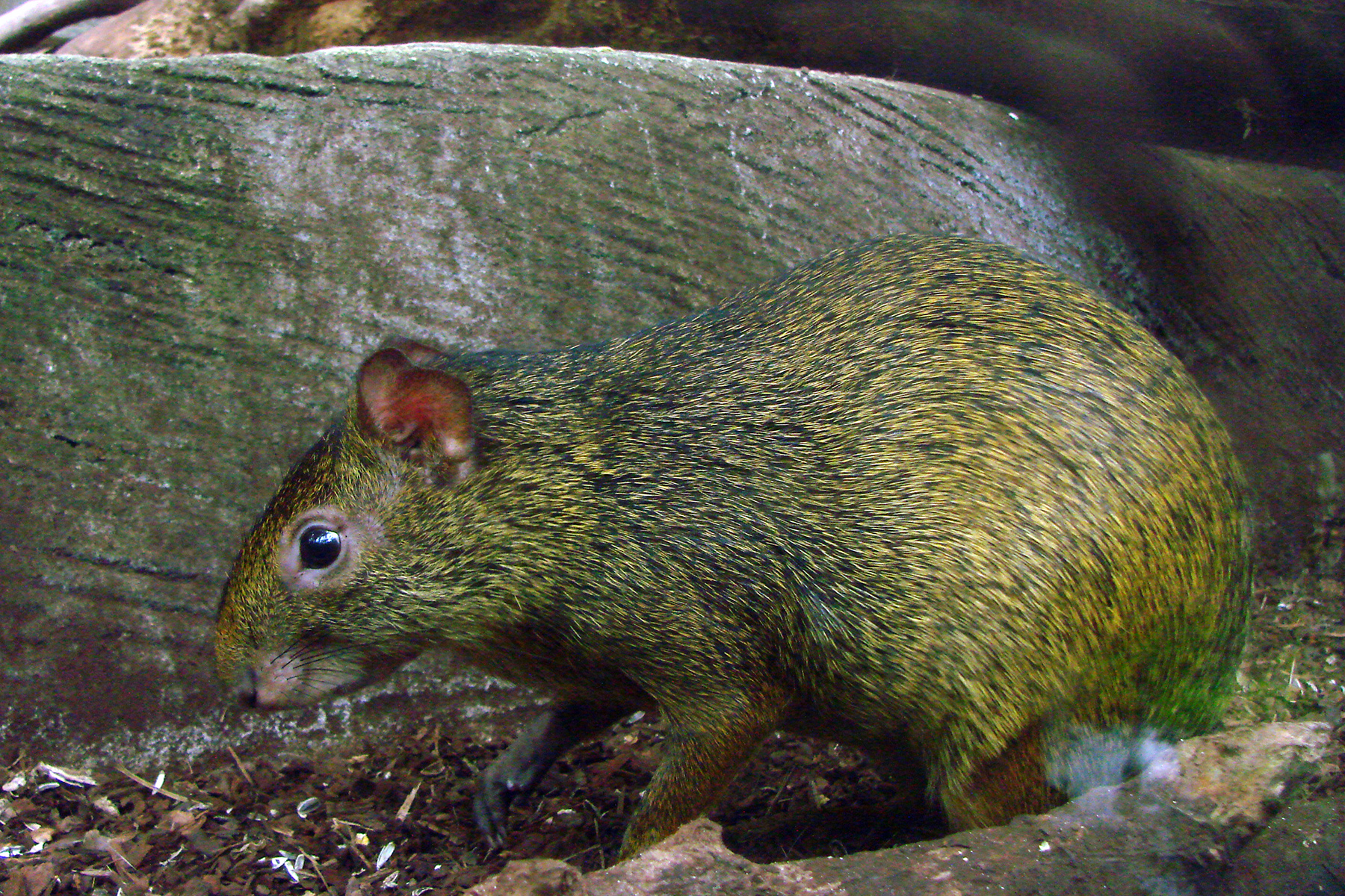 Azara agouti (Dasyprocta azarae). ZooParc de Beauval,Loir-et-Cher,France.